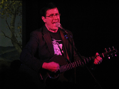 John Darnielle (voz)